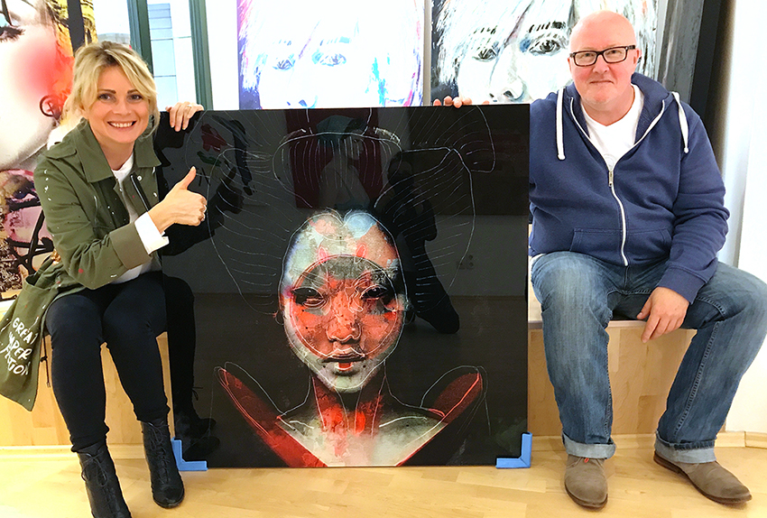 Ewa Helena Martin und Holger Mühlbauer-Gardemin mit dem Bild "Geisha"